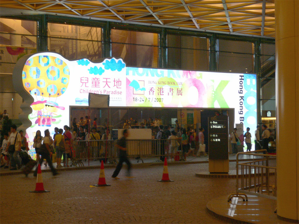 Hong Kong Book Fair 2007, at Hong Kong Convention and Exhibition Centre